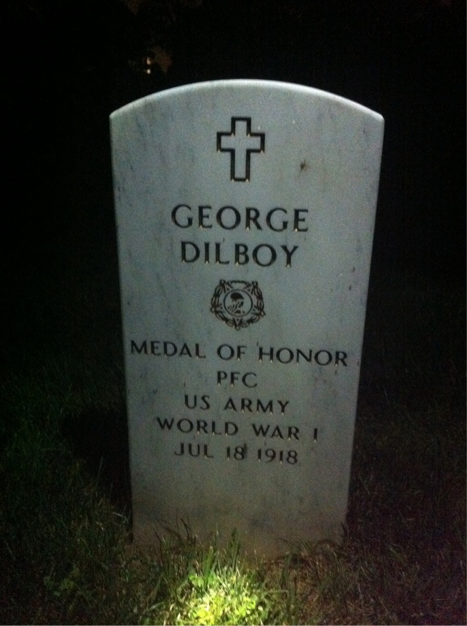 Front of George Dilboy's headstone in Arlington National Cemetery